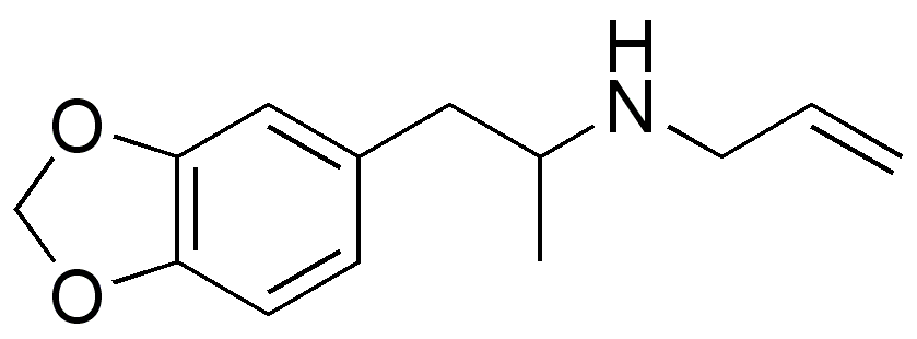 Chemical structure of MDAL, drawn in ChemDraw by User:Mark PEA.